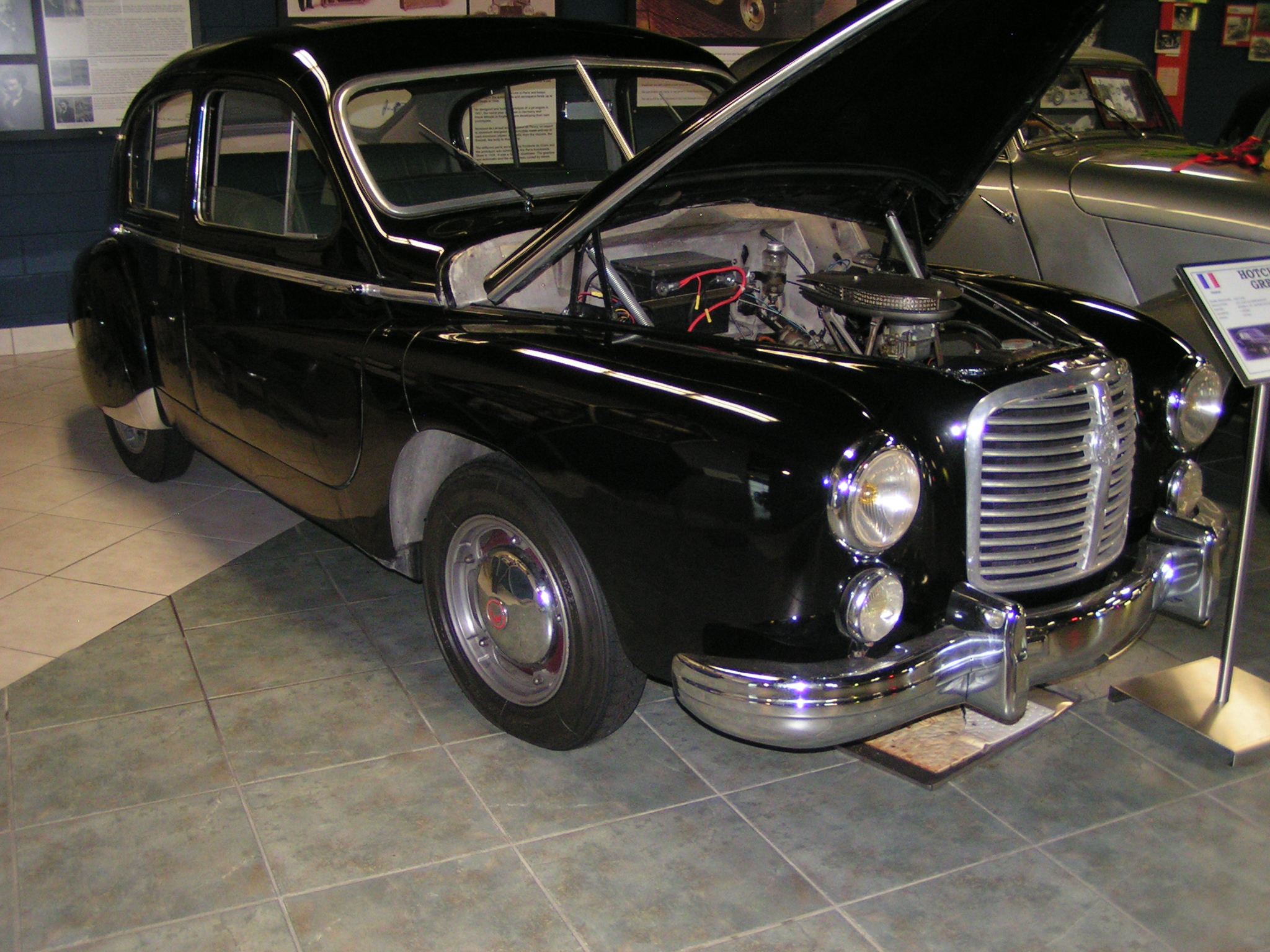 This car was the only one of this model exported to North America for the Mack Corporation of New York. The museum owner found it in Colorado under a fallen tree in very poor shape but low mileage. Aluminum body, front wheel drive - very advanced for its day and still quite modern today. Very expensive to manufacture so production was very low.